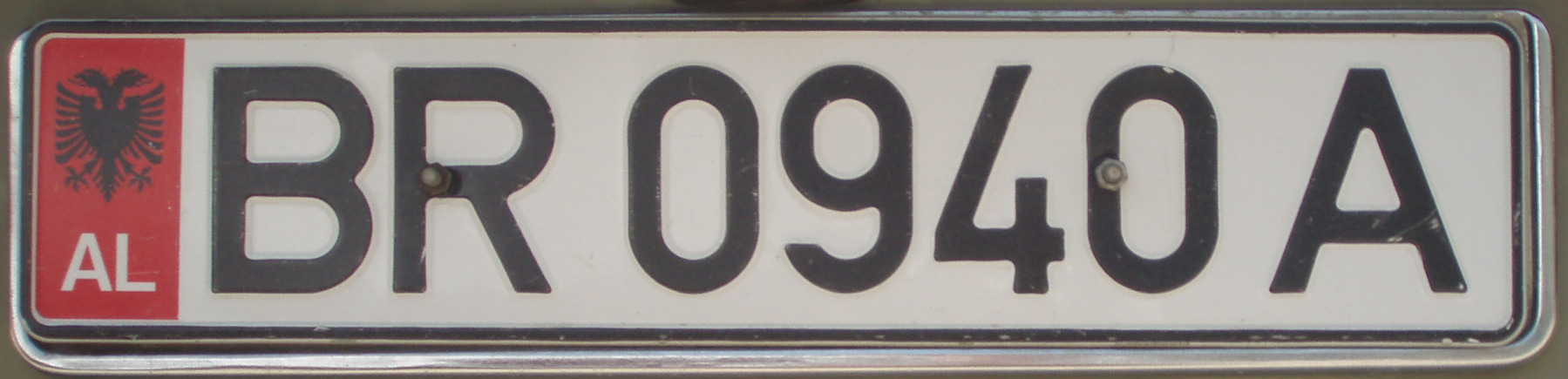 license plate of Berat, Albania